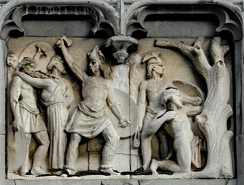 West façade of the provincial palace in Liège, Belgium Here a sculpted relief of the wars of Ambiorix against the Romans.